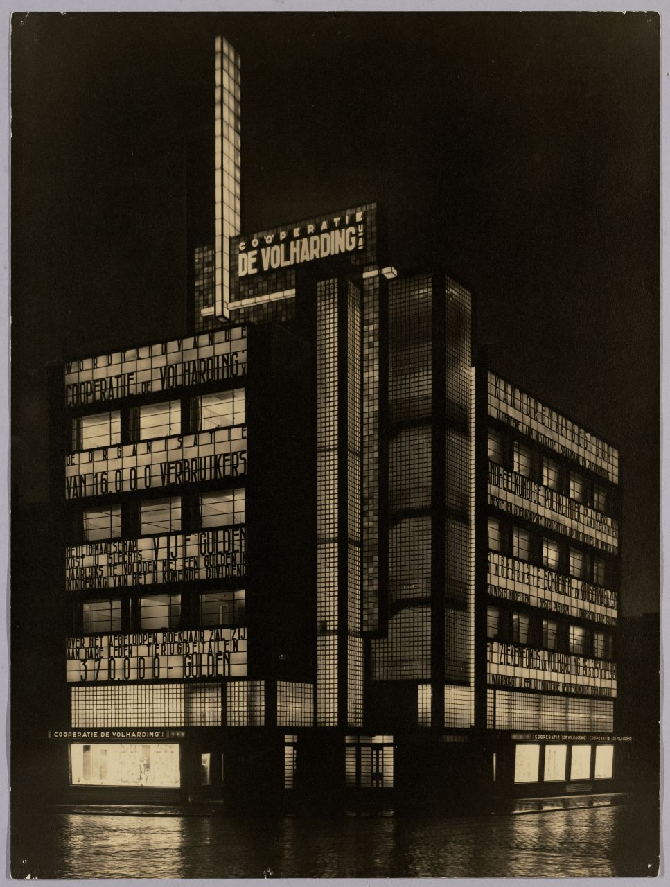 Verzamelgebouw De Volharding, Den Haag, 1928. Architect: J.W.E. Buys en J.B. Lürsen. Fotograaf: onbekend. Collectie NAi / TENT_o505 URL van deze afbeelding: Meer foto's uit deze collectie kunt u bekijken in de Collectiedatabase van het NAi. Niet van alle gebouwen en interieurs zijn alle gegevens bekend. Heeft u meer informatie of weet u het adres van een gebouw? Laat dan een reactie achter (als u ingelogd bent bij Flickr) of stuur een mailtje naar: Al deze foto's zijn gemaakt in de eerste helft van de twintigste eeuw. Wij zijn benieuwd hoe deze gebouwen er vandaag de dag uitzien. Heeft u recente foto's van deze gebouwen of locaties, voeg ze dan toe als commentaar. U kunt een eigen Flickr-foto toevoegen door de URL ervan tussen vierkante haken in het commentaarveld te plakken. Als uw foto's een Creative Commons licentie hebben, nemen we ze bovendien graag op in de NAi Collectiedatabase. Multi-user building De Volharding, The Hague, 1928. Architect: J.W. E. Buys and J.B. Lürsen. Photographer: unknown. NAI Collection / TENT_o505 Persistent URL: For more photographs from this collection, please visit the NAI Collection Database You can help us gain more knowledge on the content of our collection by adding a comment with information. If you do not wish to log in, you can write an e-mail to: All these pictures are taken in the first half of the twentieth century. We are curious to learn how these buildings look like today. If you have recently taken photographs of these buildings or locations, please add them to your comment. If you'd like to include a Flickr photo, simply copy and paste its URL between square brackets in the commentary-field. Photos with a Creative Commons licence may be used to illustrate the NAi Collection Database.